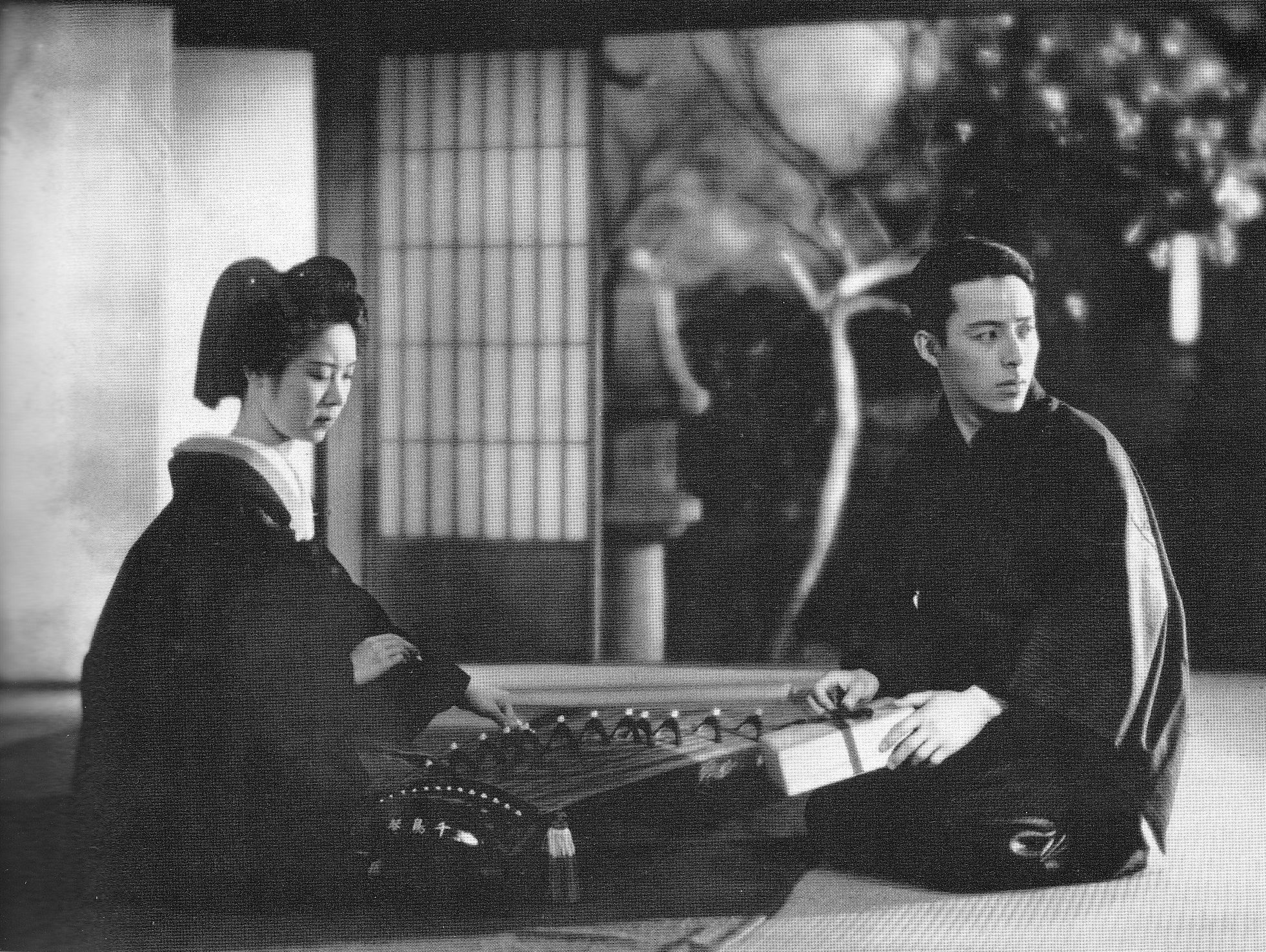 Kinuyo Tanaka and Kōkichi Takada in Shunkinsho: Okoto to Sasuke (1935)